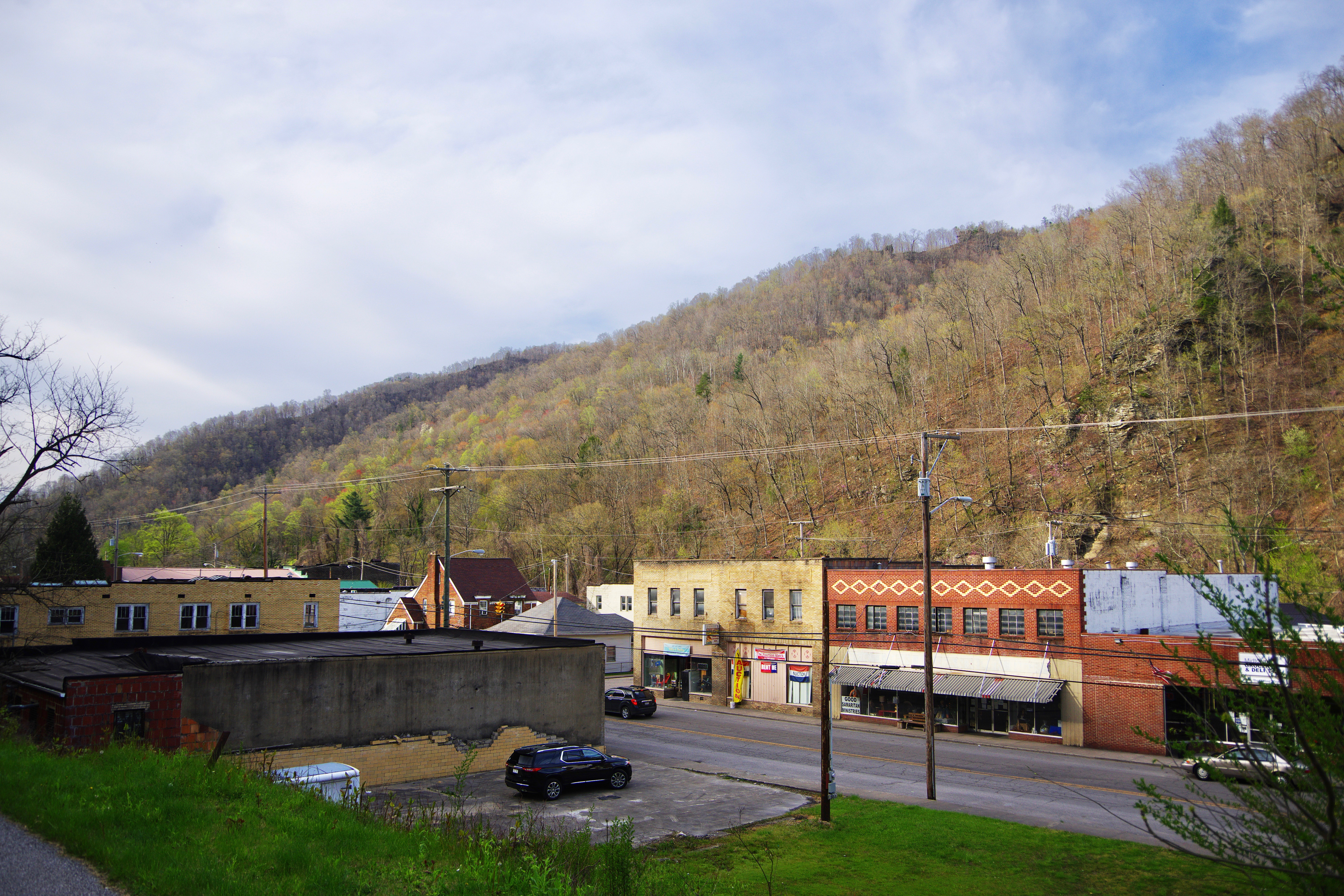 Buildings along West Virginia Route 3 (Coal River Road) in Whitesville, West Virginia, United States.